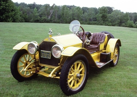 1914 Stutz Bearcat owned by Anthony "Tony" Koveleski 1985